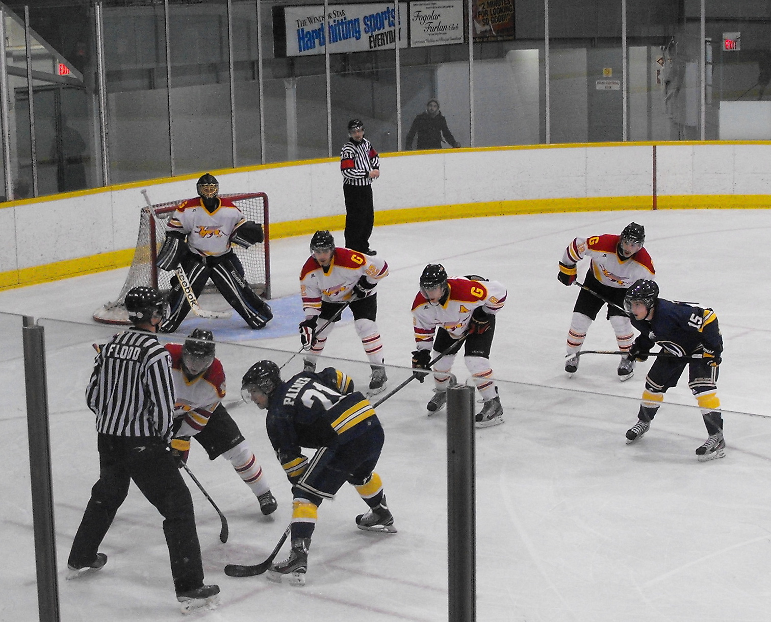 Photo taken by Devan Mighton of CIS men's hockey.